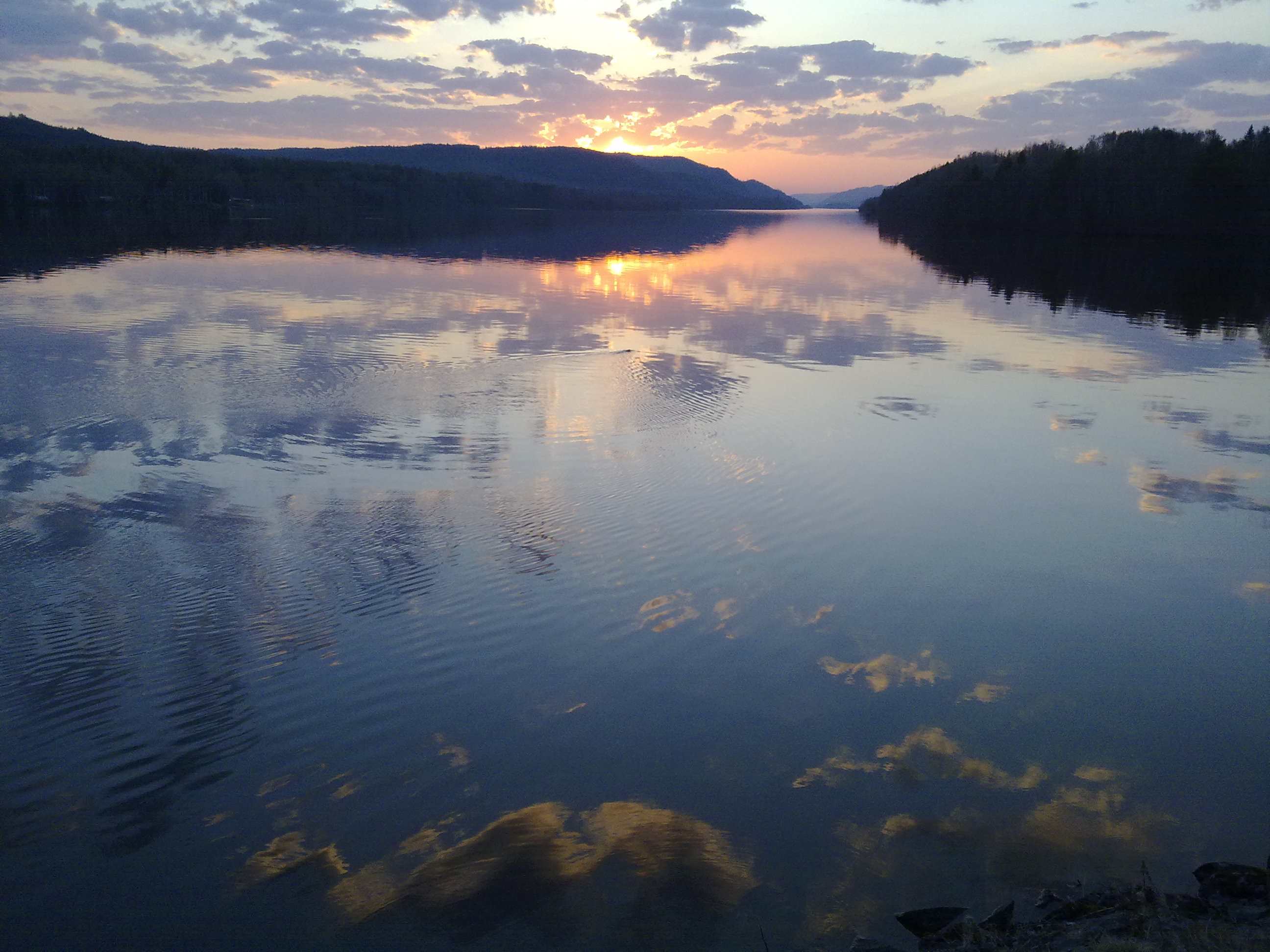 Breaver that swims into the sunset in the river at Medelpad in Sweden.